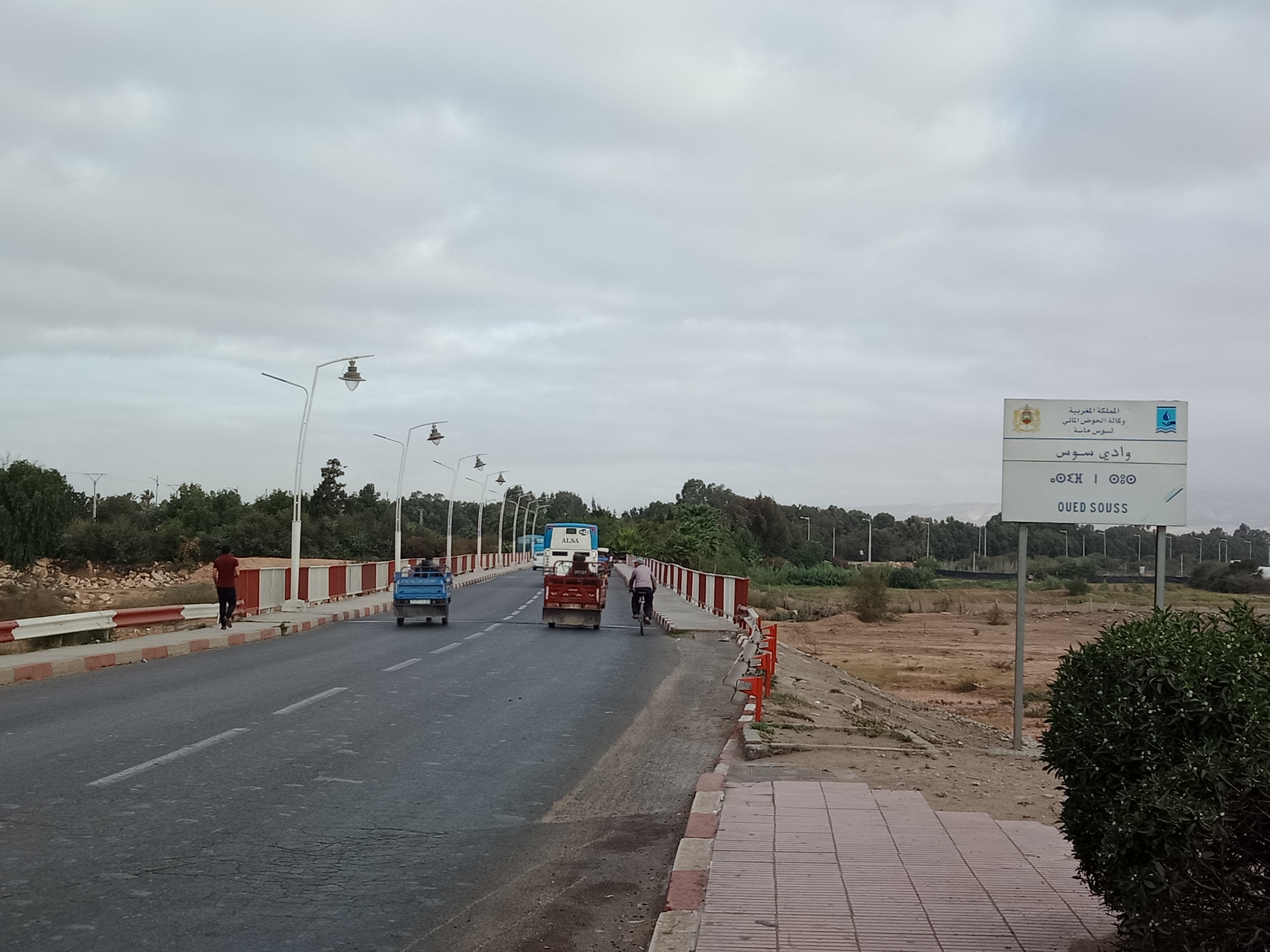 This is an image with the theme "Africa on the Move or Transport" from: Morocco